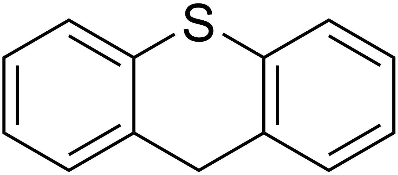 chemical structure of thioxanthene